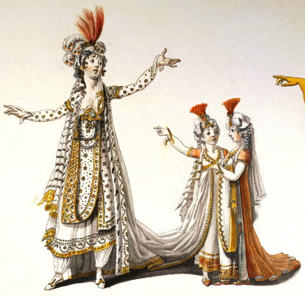 Joseph Haydn - Armida - Turin 1804 - Giacomo Pregliasco - Costume Armida - Lorenza Correa